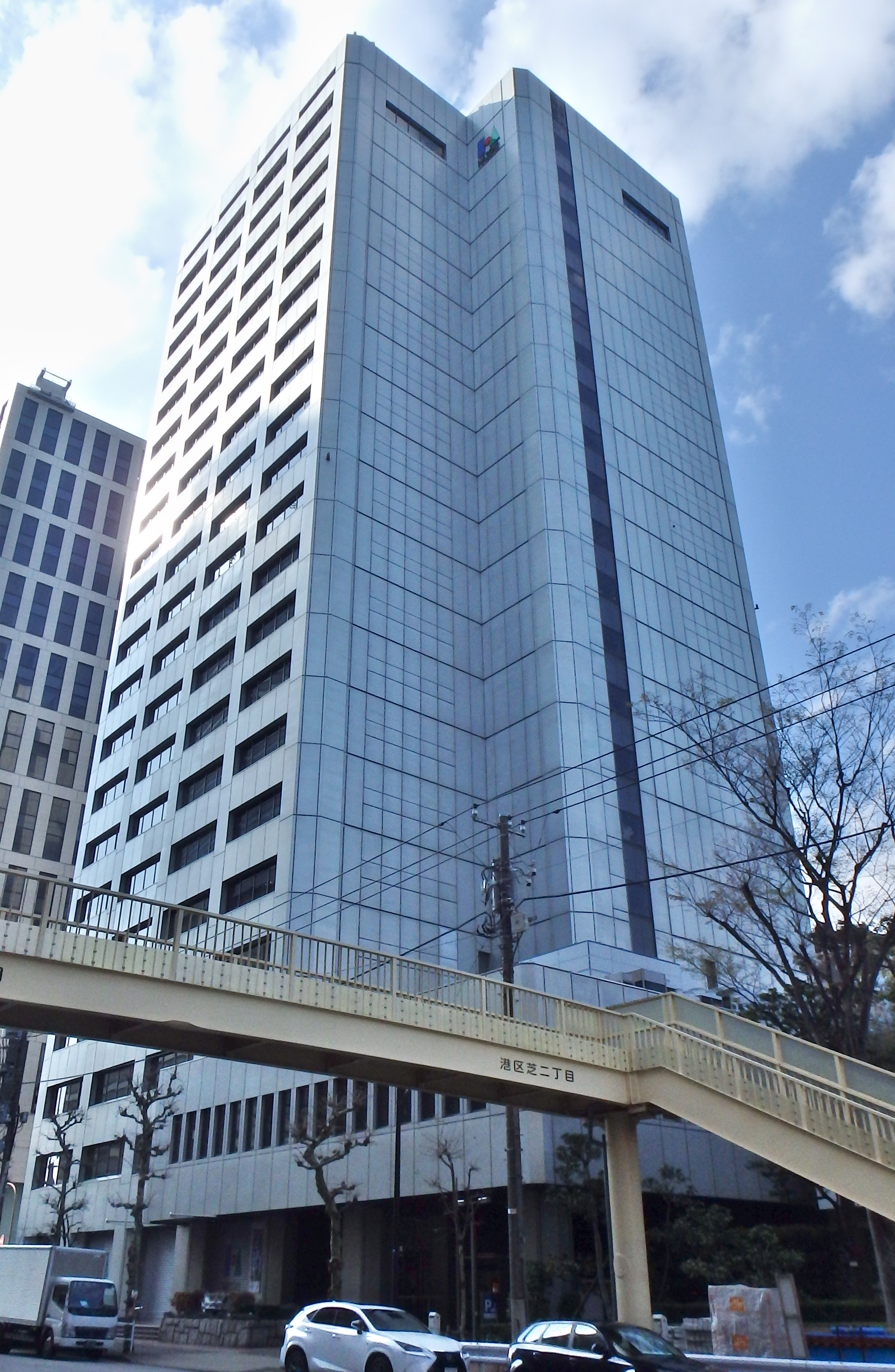 Headquarters of HASEKO Corporation, Tokyo Metropolis,Japan